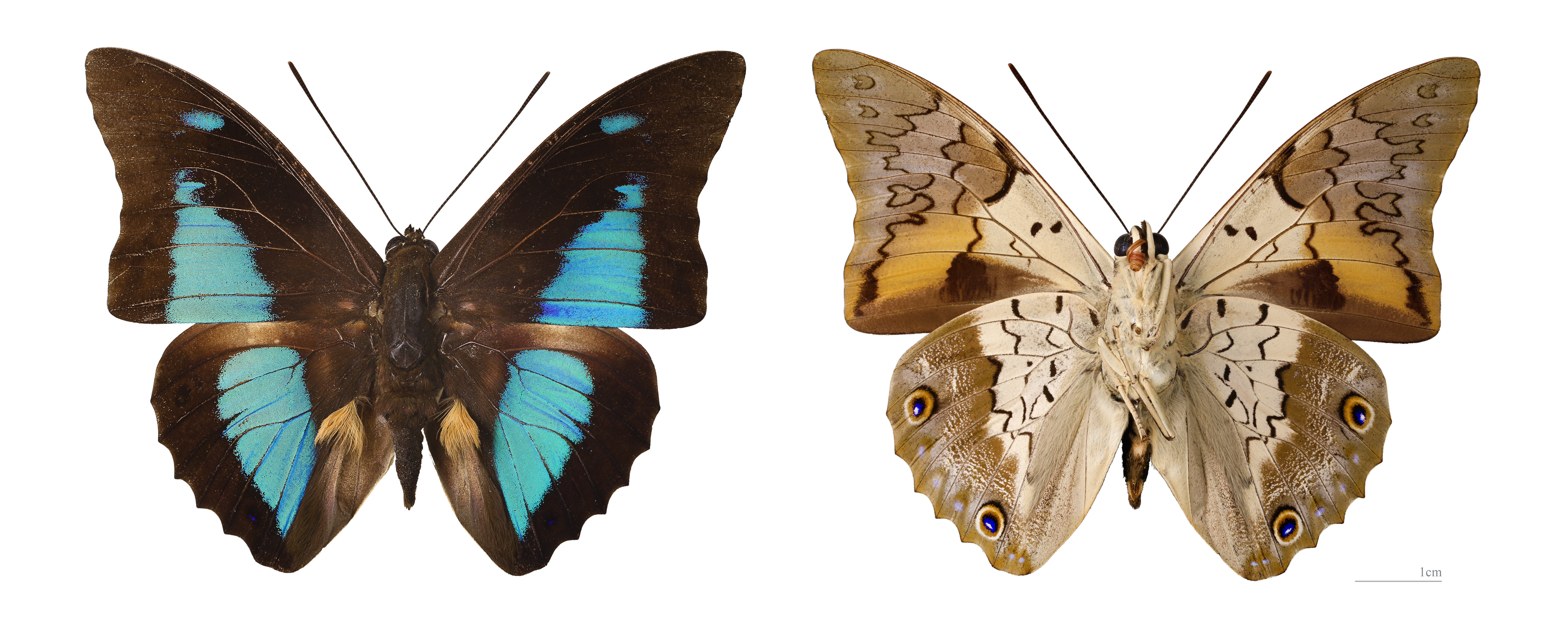 ♂ - Two views of same specimen Locality: Santarèm, Pará, Brasil